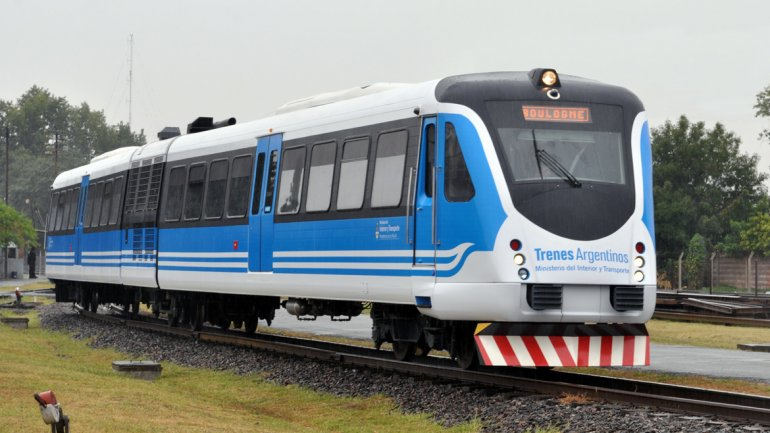 Argentine Alerce DMU made by Grupo Emepa